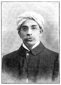 Sir Narayan Ganesh Chandavarkar (Konkani: नारायण गणेश चन्दावरकर)(December 2, 1855 - May 14, 1923) was an early Indian National Congress politician and Hindu reformer. He was regarded by some as the "leading Hindu reformer of western India"